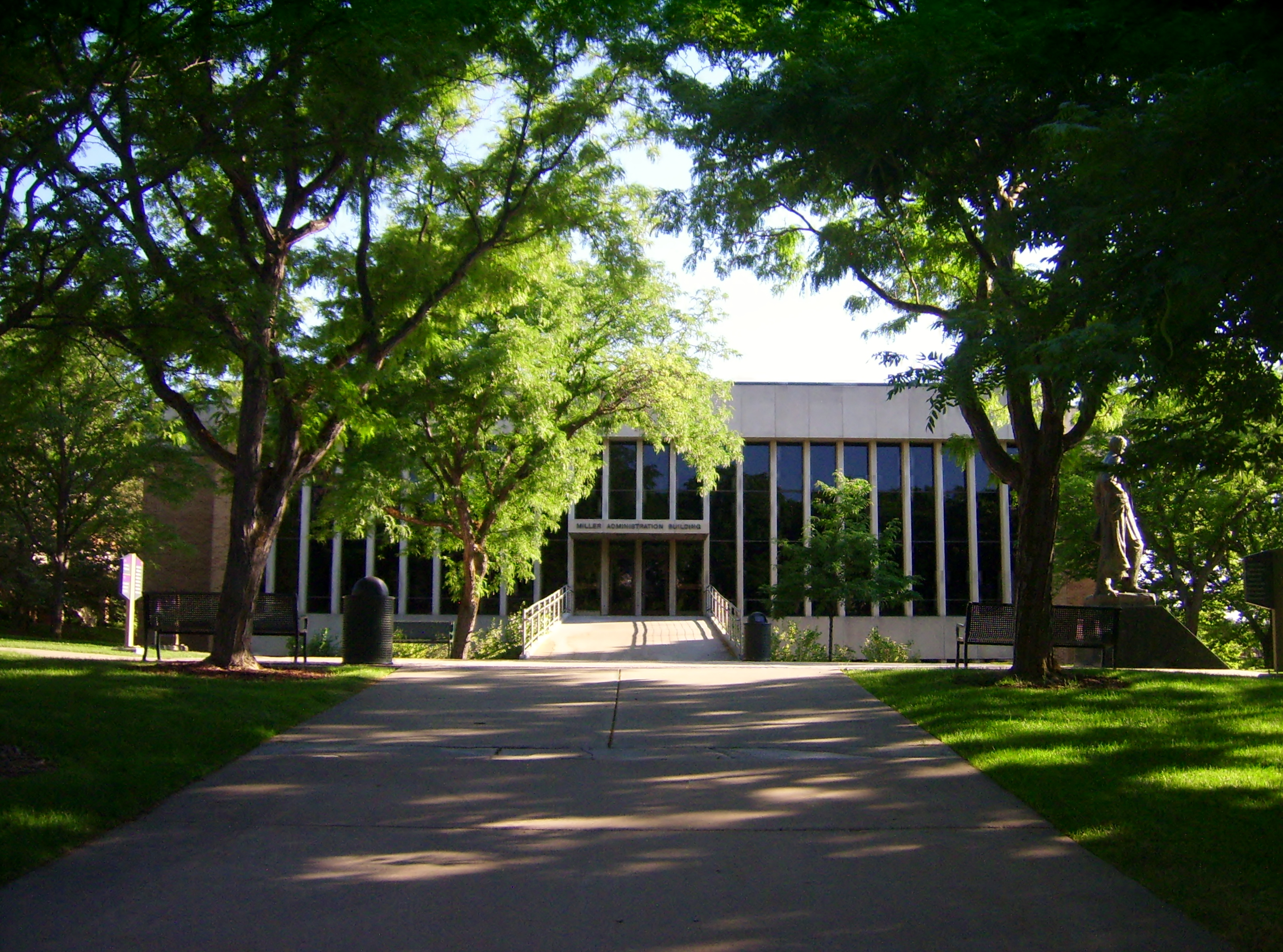 Weber State University campus